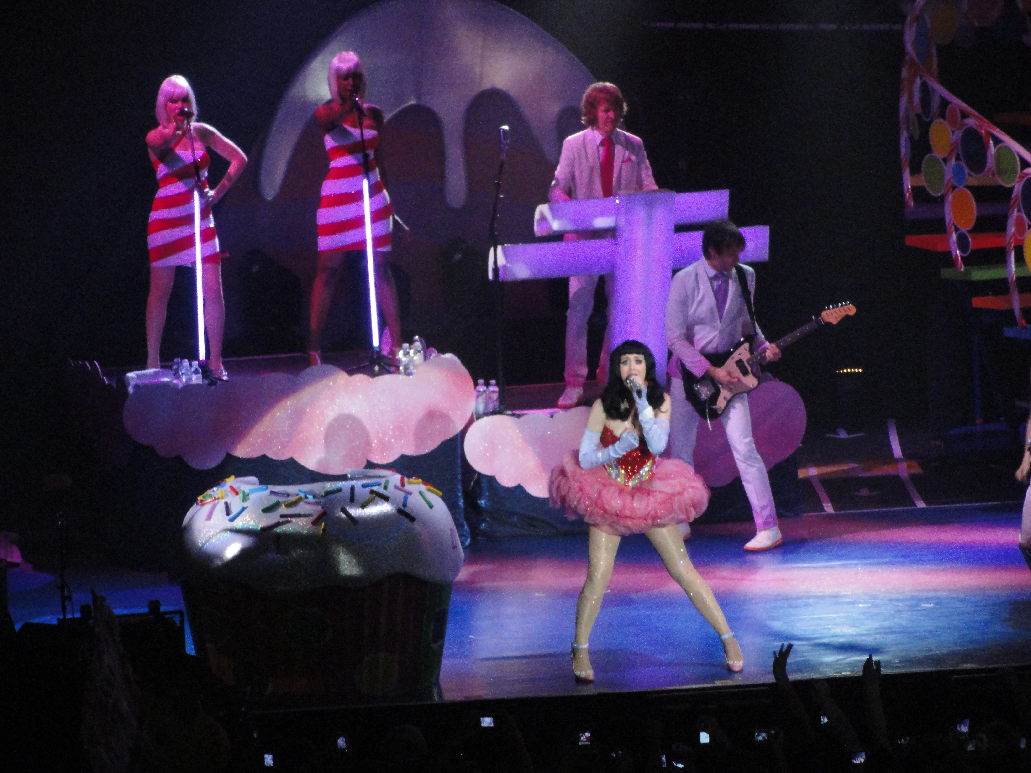 Katy Perry performing Teenage Dream in California Dreams Tour.